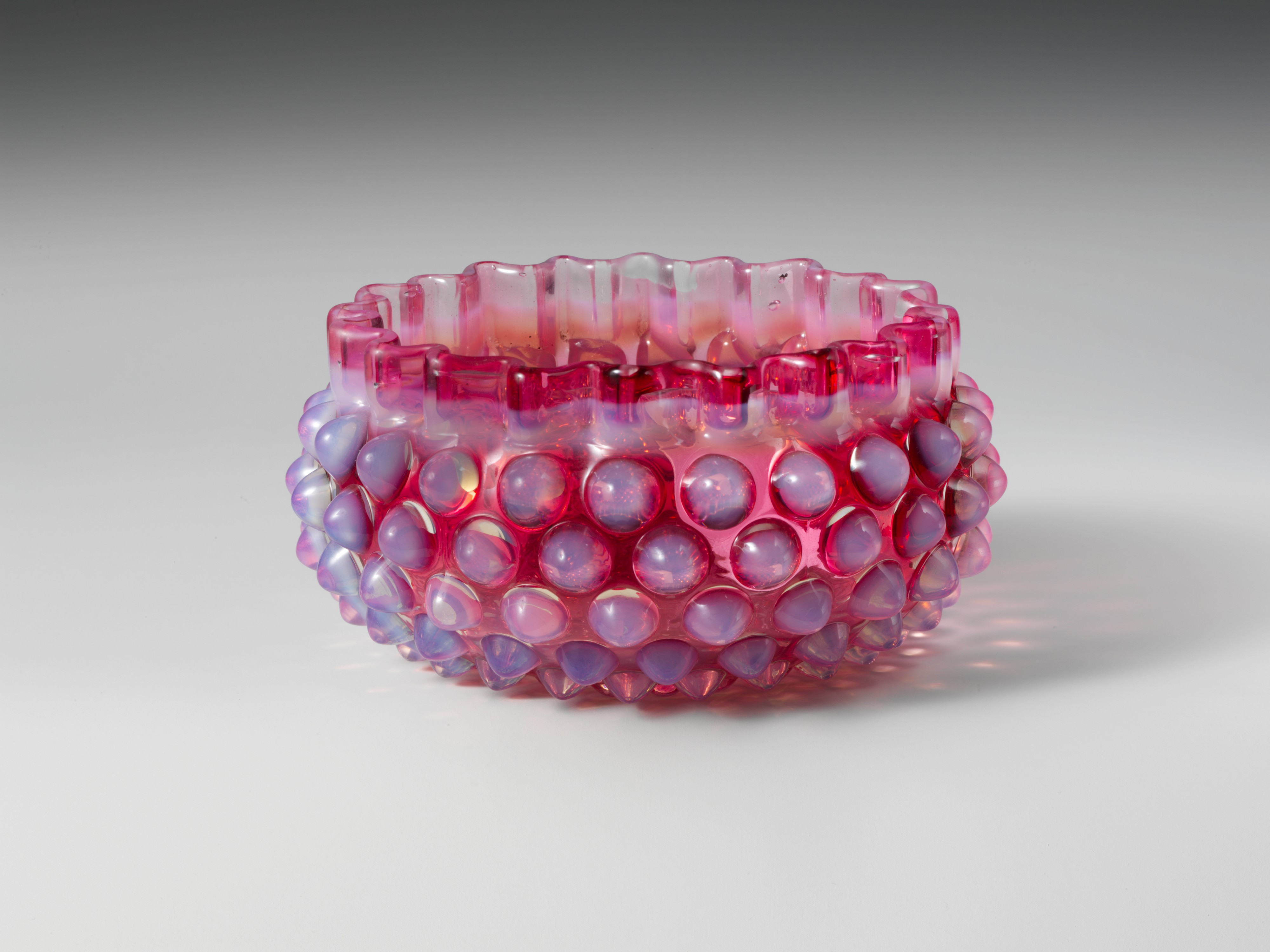 Finger bowl; American; Glass